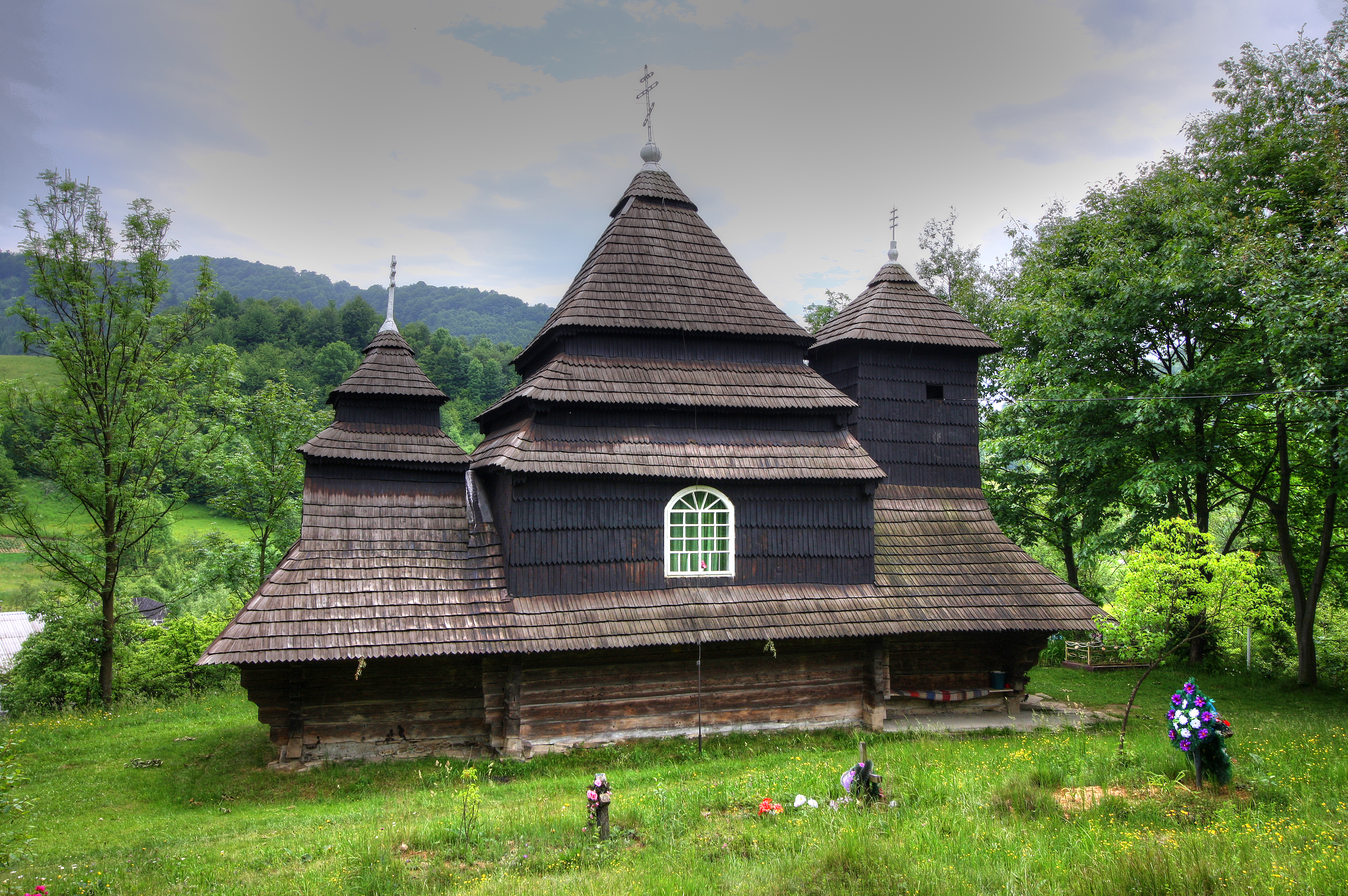 Wooden Church St. Michael of Ushok, Ukraine, from North. Ukrainian orthodox church